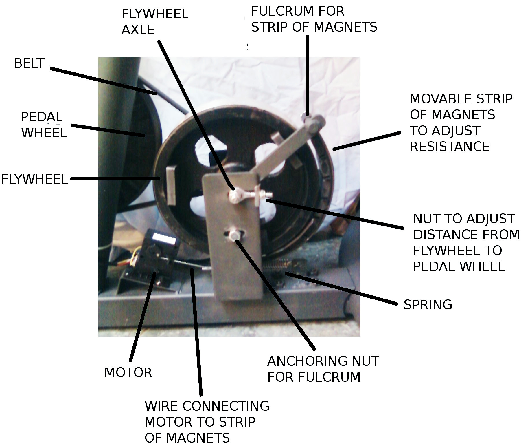 inner workings of the magnetic resistance bicycle